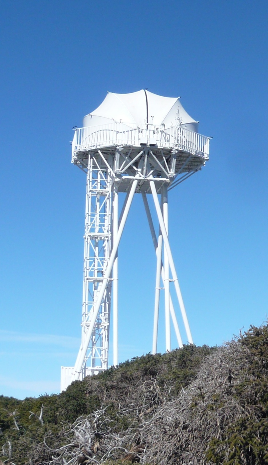 The Dutch Open telescope with its foldable dome closed.